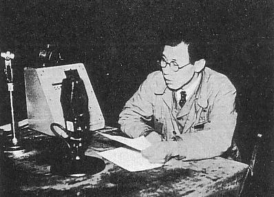 Yashiro Ii